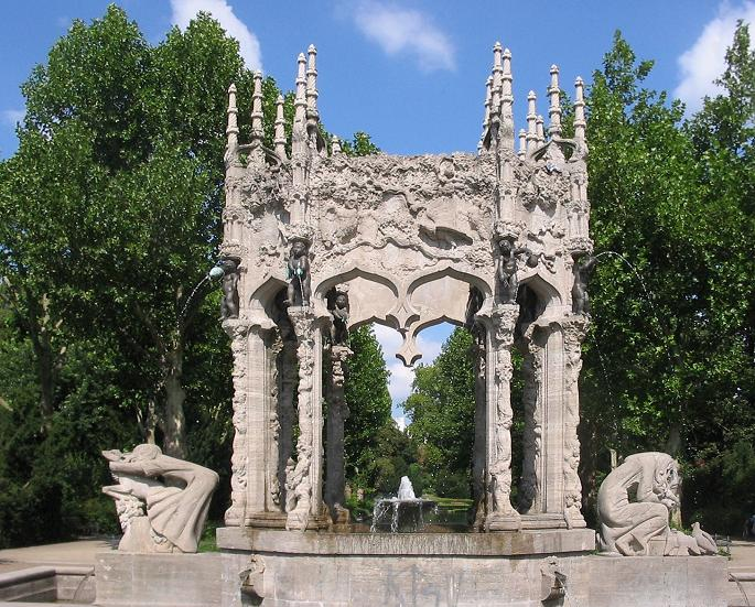 „Märchenbrunnen“ (german for: tale fountain) in the Schulenburgpark in Berlin-Neukölln. Created in 1915 (but installed first in 1935) by Ernst Moritz Geyger. On either side the limestone-sculptures „Aschenputtel“ (cinderella) and „Brüderchen und Schwesterchen“ (brother and sister), created in 1970 on the occasion of the fountain-restoration by the sculptress Katharina Szelinski-Singer.